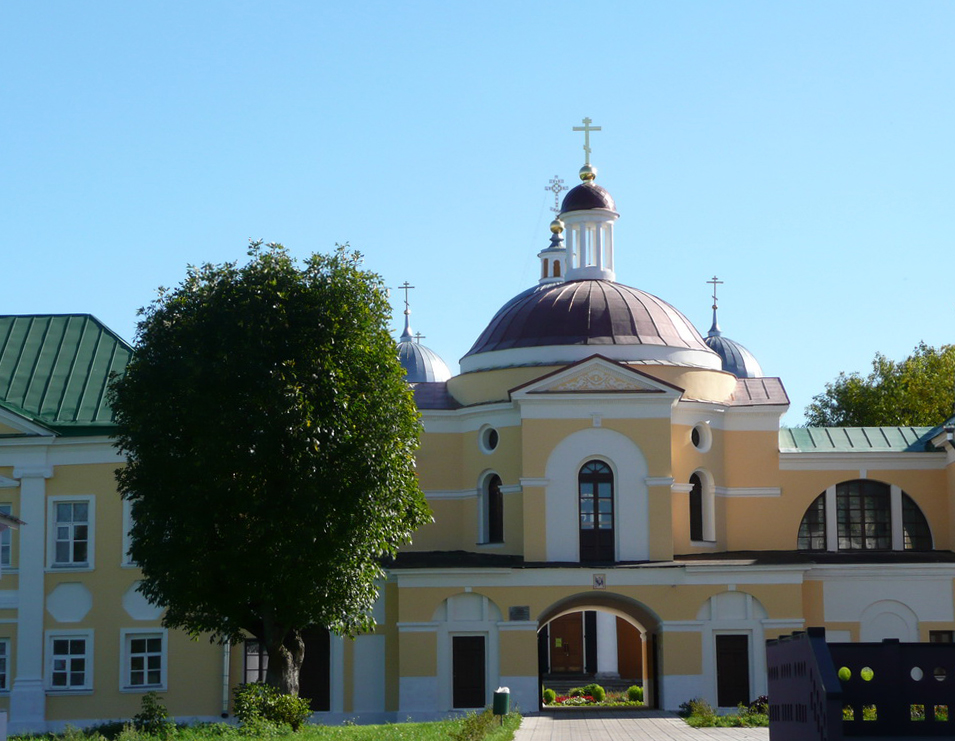 The Nativity Convent in Tver The Saviour Church (1801-05)